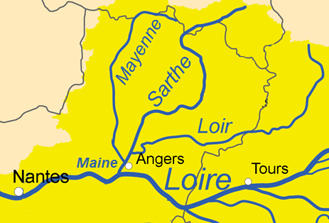 Map of Maine, Mayenne, Sarthe and Loir rivers in France